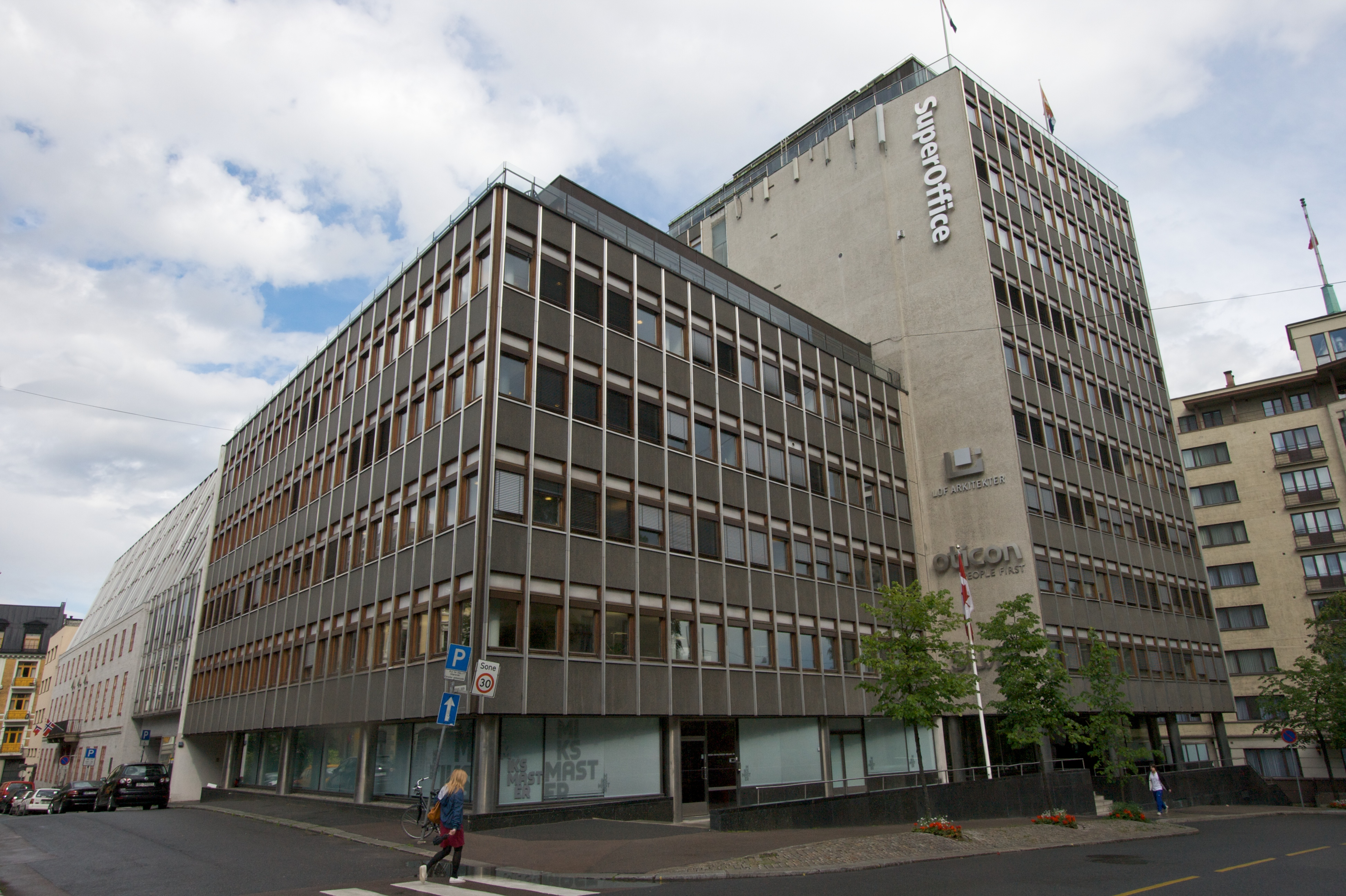 Canadian Embassy, Oslo, Norway.